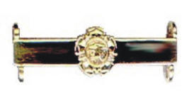 Bar to the Nkwe ya Gauta - Golden Leopard, post-nominal letters NG, awarded to persons who have distinguished themselves by performing acts of exceptional bravery during military operations